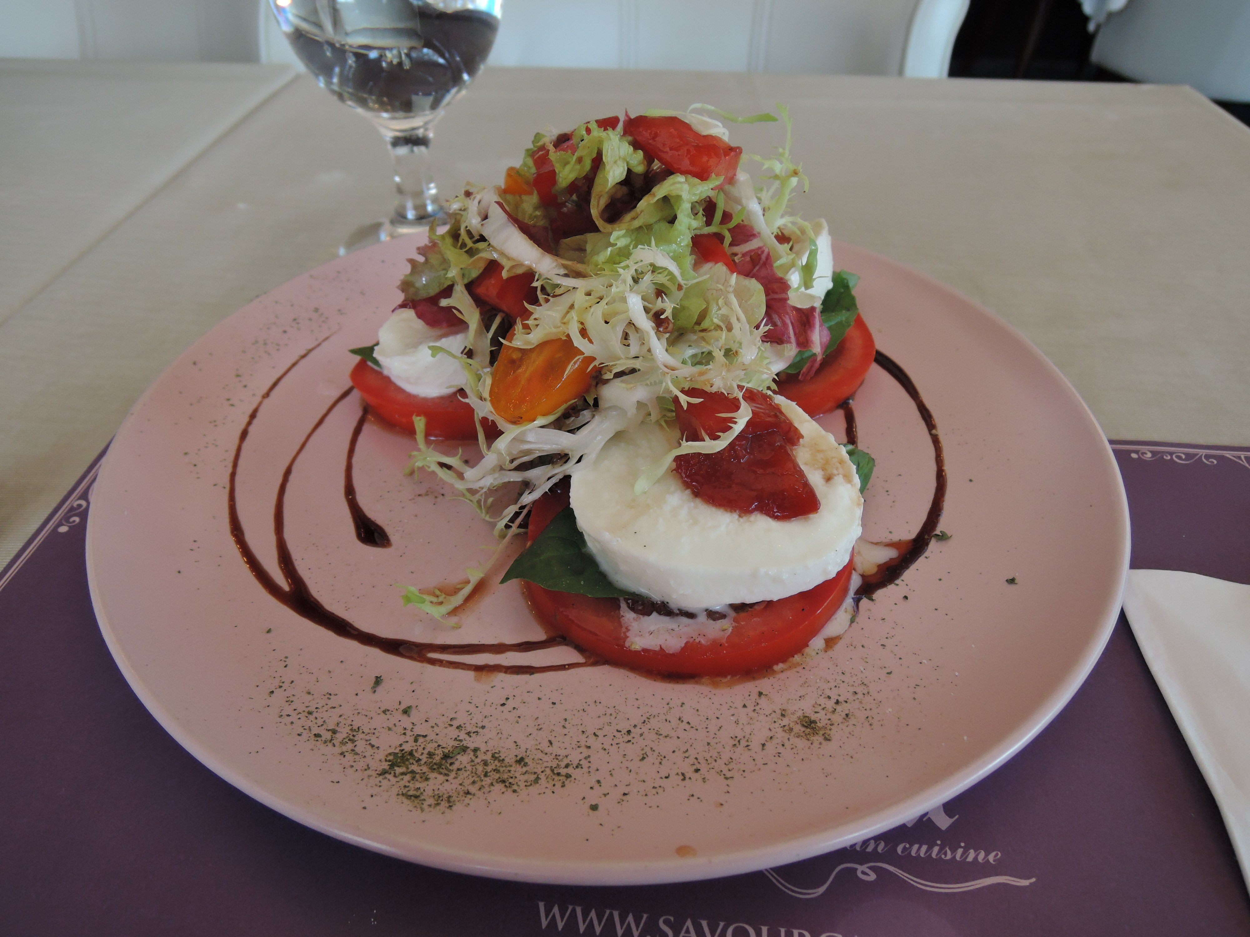 Buffalo mozzarella and tomato salad in savour café at Yuen Long